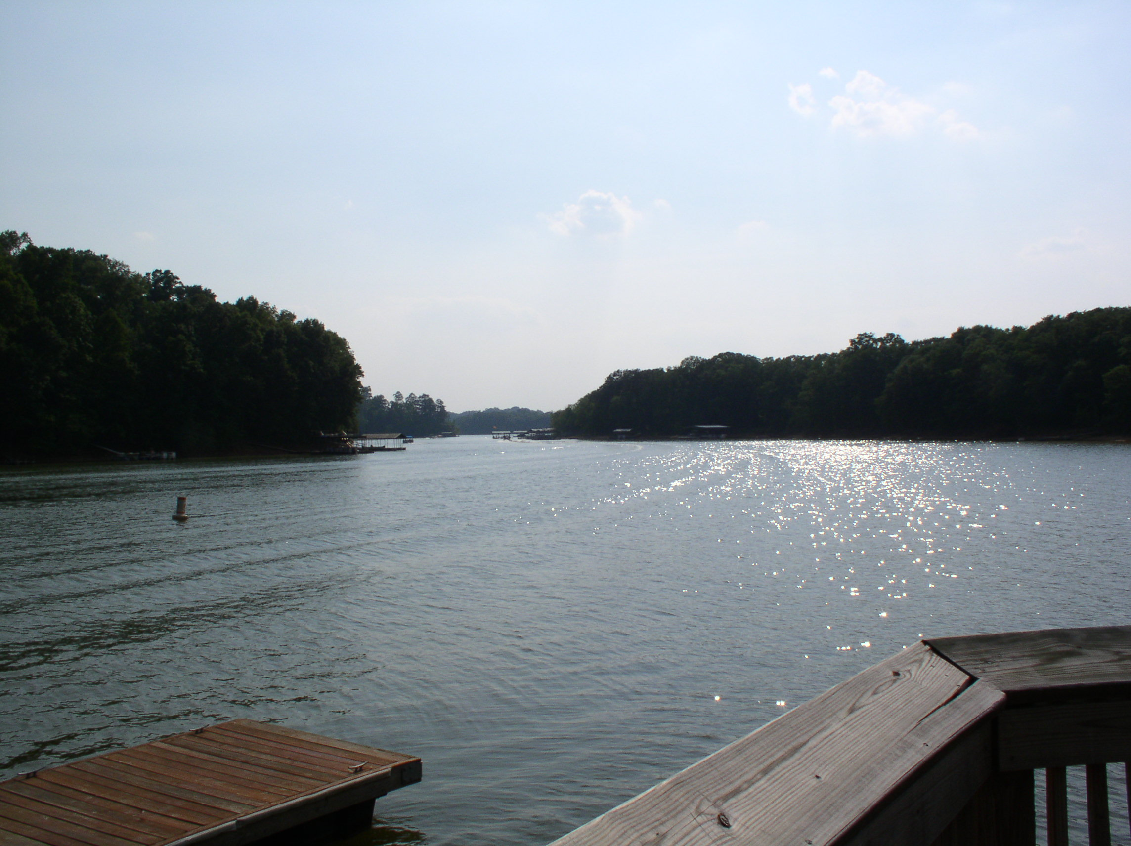 Finger of Lake Hartwell in Clemson, SC.